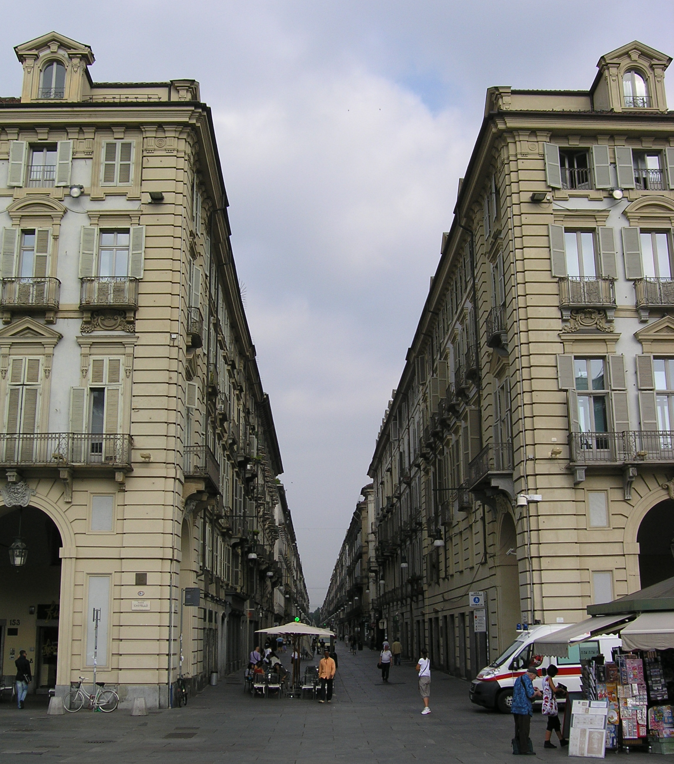 Garibaldi street from Castello square, Turin (Italy)